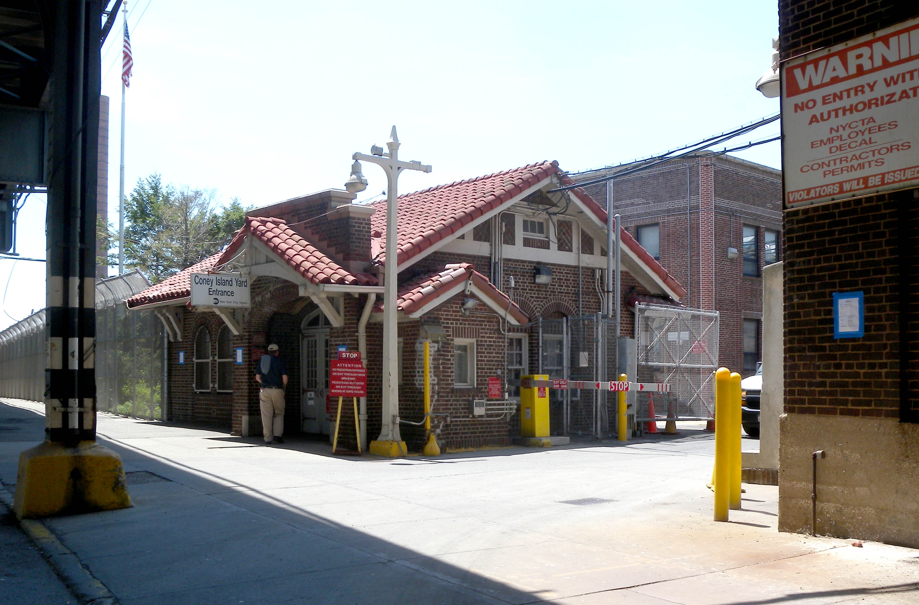 Looking southwest under IND Culver Line at entrance of Coney Island Complex on a sunny midday.